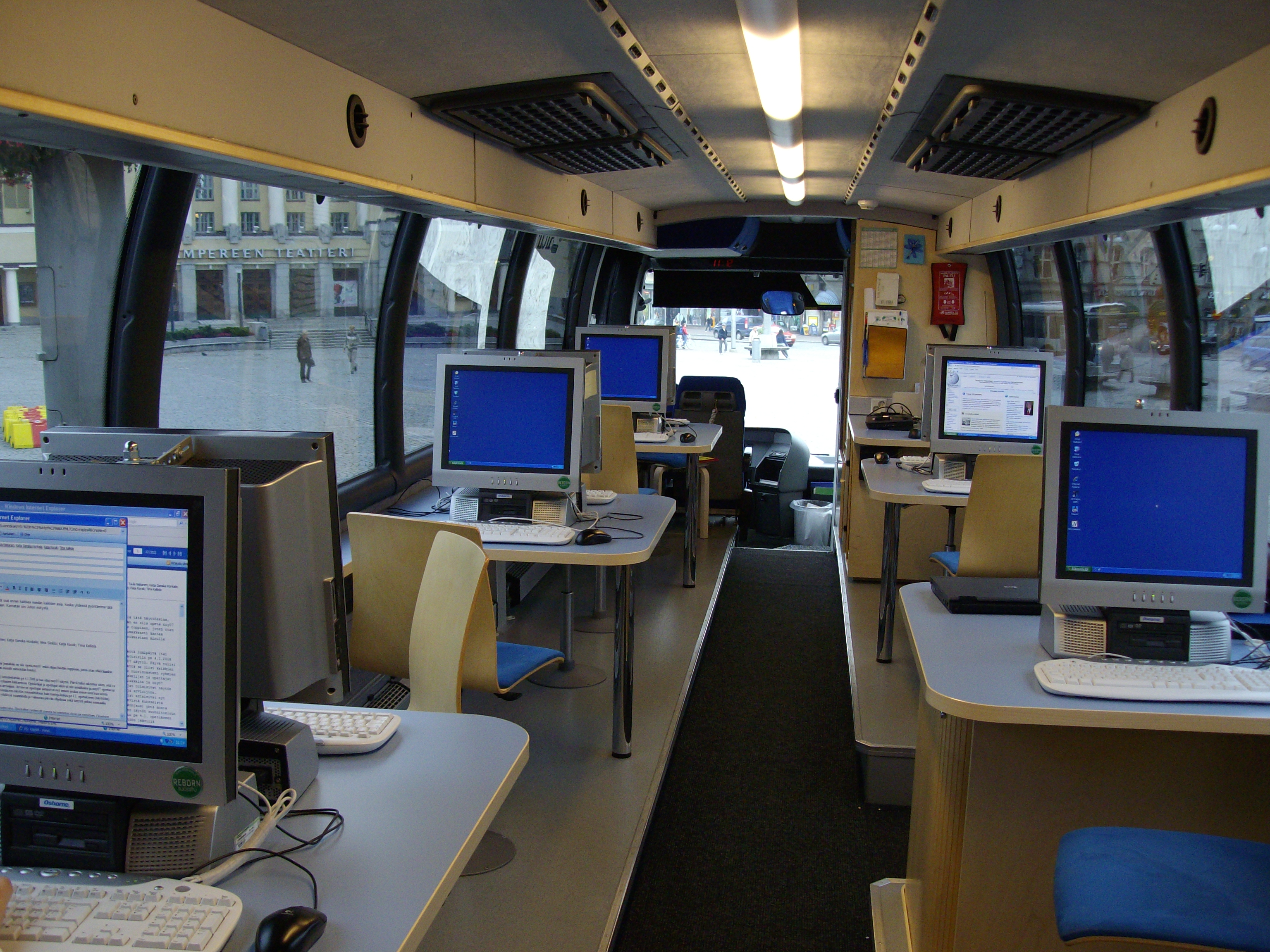 Interior of Netti-Nysse bus.